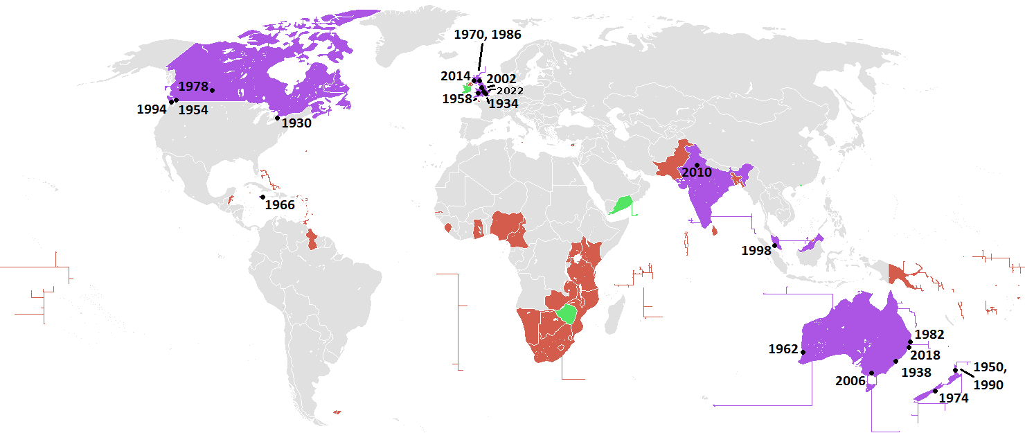 Commonwealth games: countries which have participated, and locations of the games. Purple = Countries which have hosted the Empire games or Commonwealth games, or plan to host the games Red = Other countries which enter the games Green = Countries which have entered the Empire games or Commonwealth games but no longer do The years/locations of the games is shown with black dots Commonwealth Games maps Host cities British Empire Games: 1930 · 1934 · 1938 · 1950 British Empire and Commonwealth Games: 1954 · 1958 · 1962 · 1966 British Commonwealth Games: 1970 · 1974 Commonwealth Games: 1978 · 1982 · 1986 · 1990 · 1994 · 1998 · 2002 · 2006